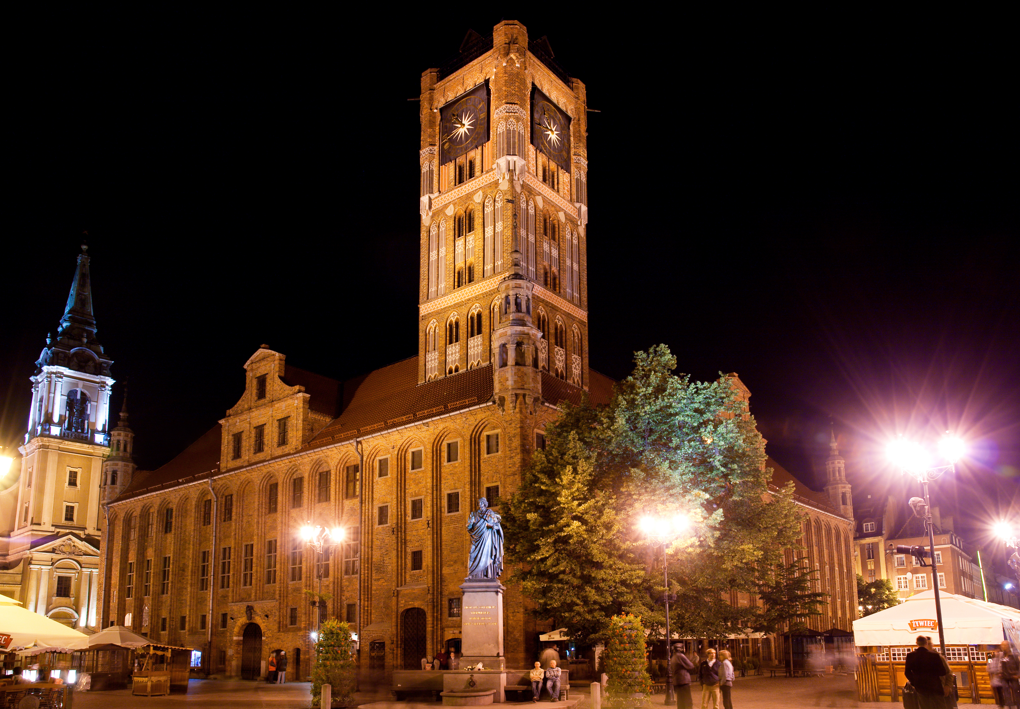 Old Town Hall in Toruń by night.